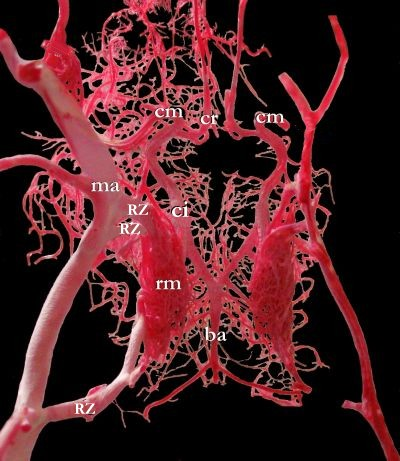 Sheep arterial circulatory system specimen injected with a preservation preparation